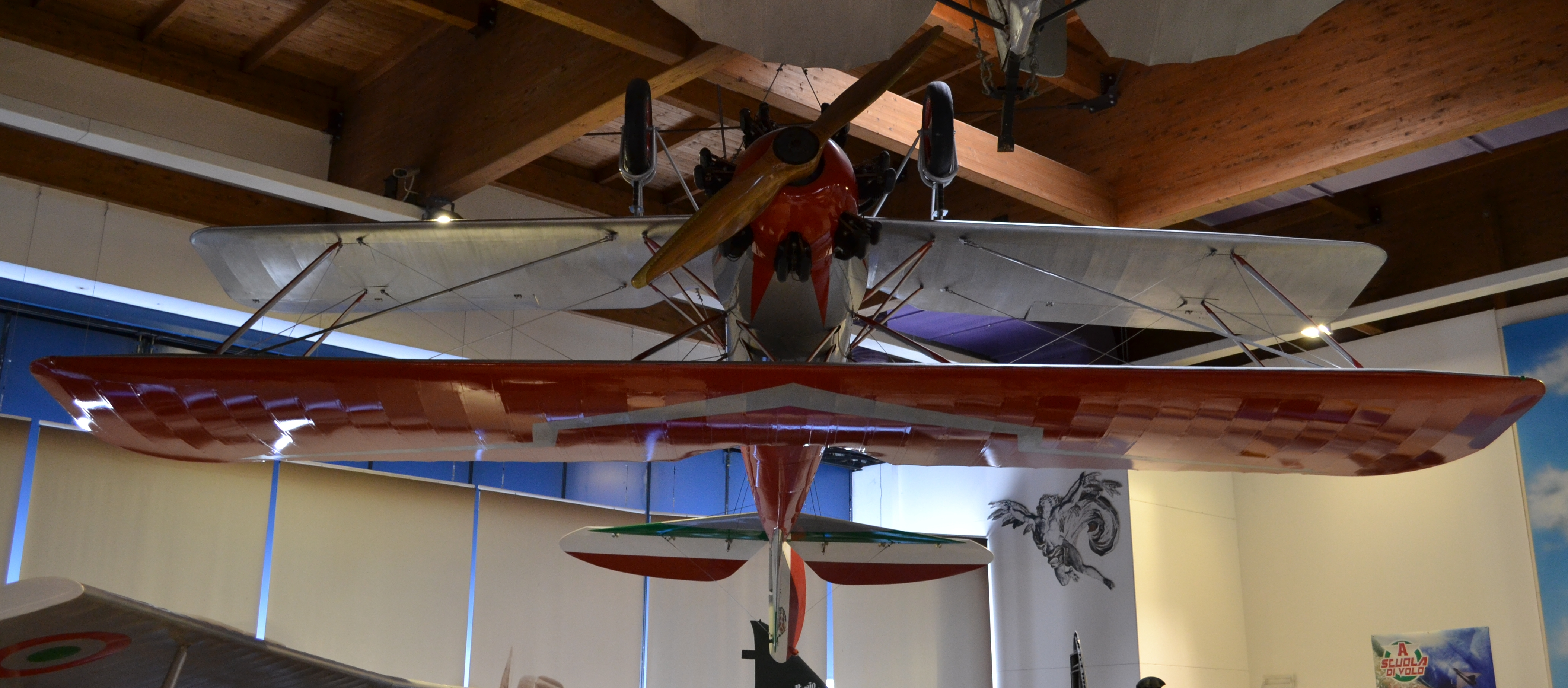 Breda Ba.19 Italian aerobatic and training biplane from the 1930s. Original aircraft on display at the museo dell'aeronautica Gianni Caproni in Trento, Italy.